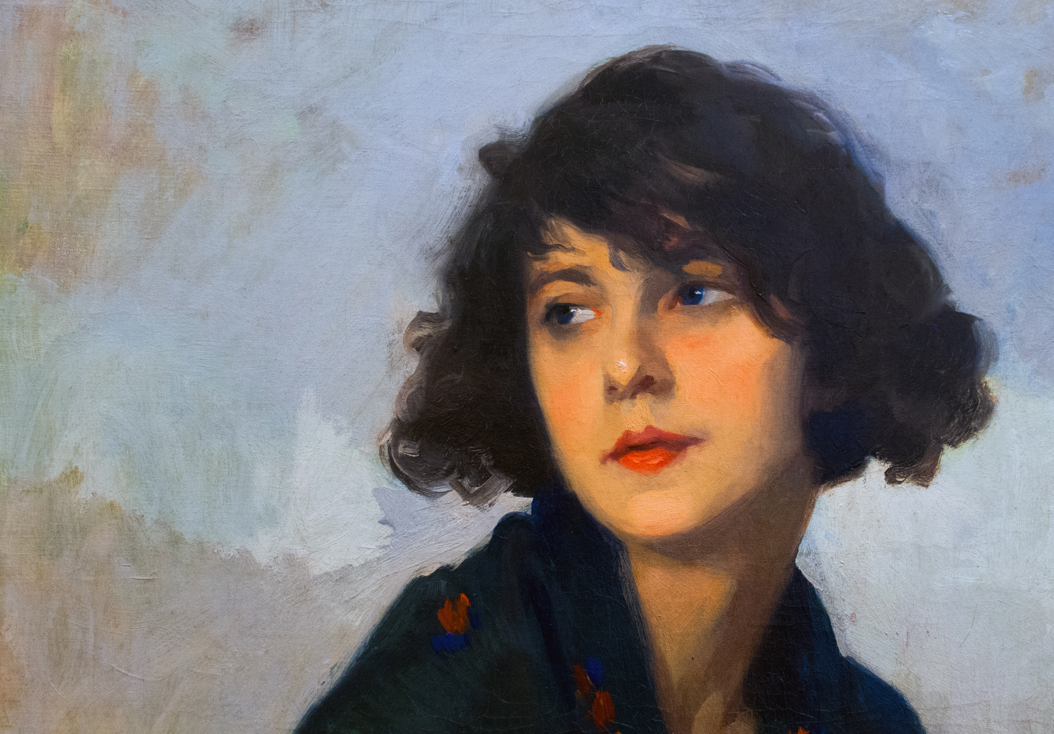 Woman with green shawl, Cyprien Eugène Boulet. Detail.